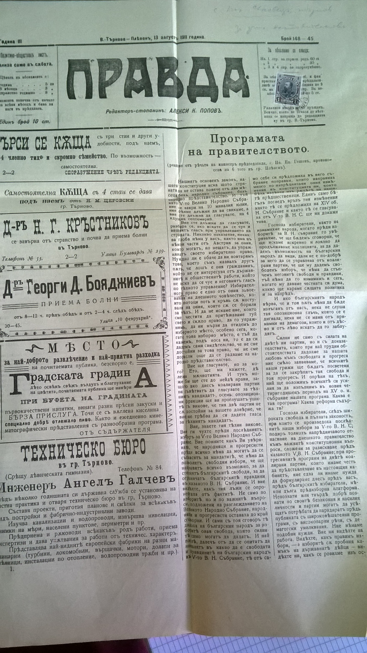 Title page of the newspaper from 1911